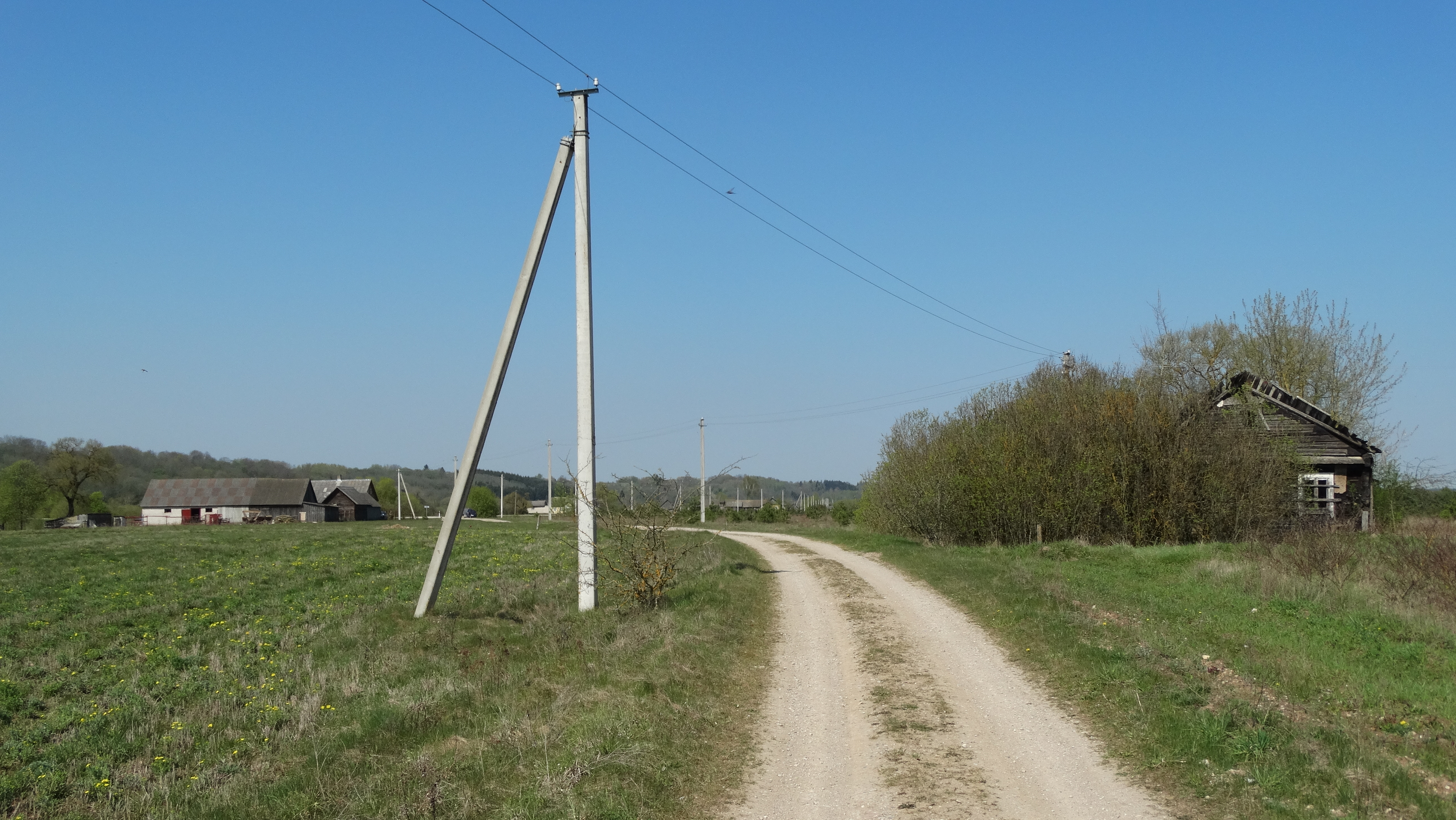 Budeliai, Kaišiadorys district, Lithuania